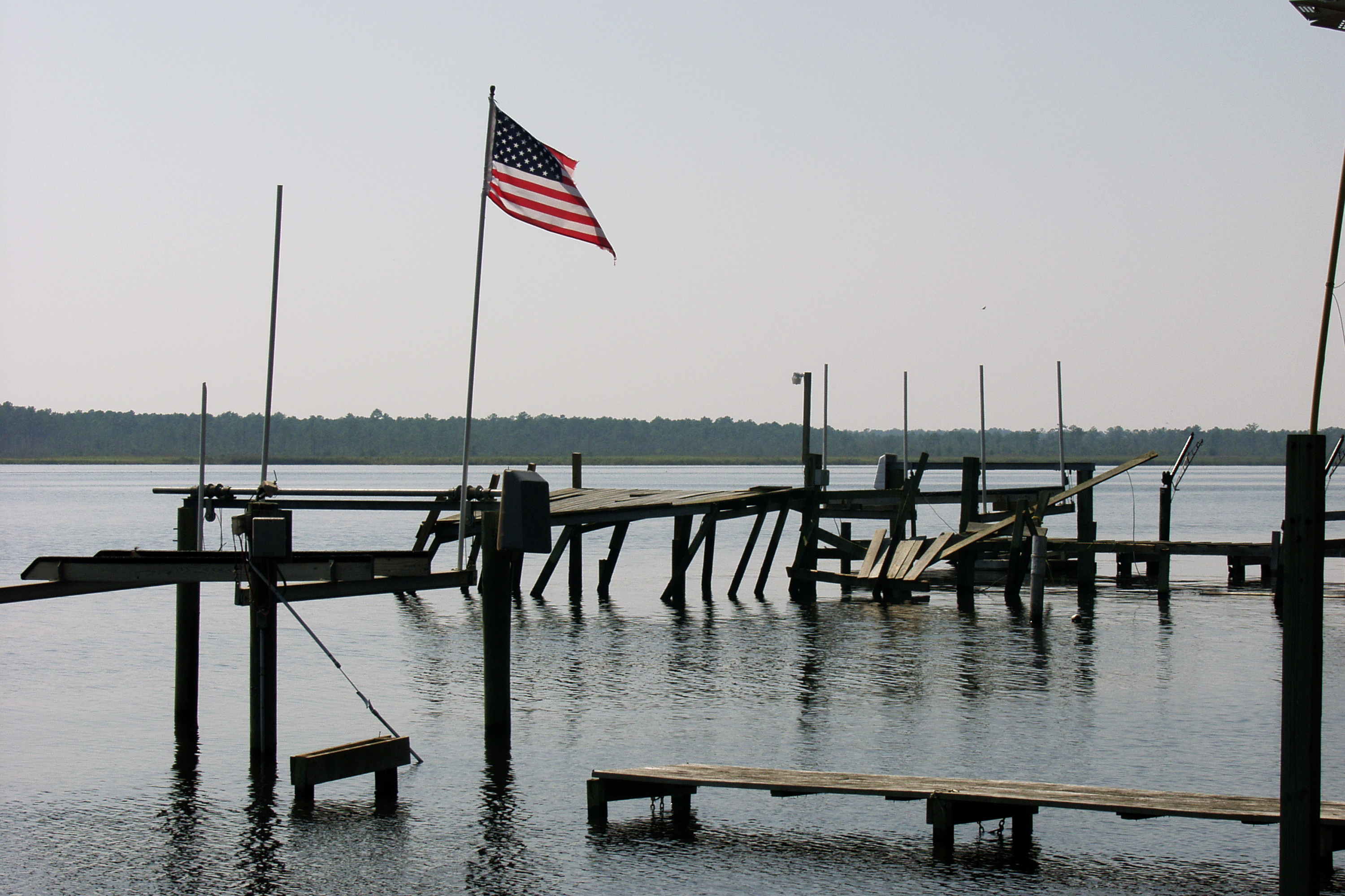 Belhaven, NC, Septemper 20, 2003 -- A broken pier on the Pungo River in Belhaven, NC after Hurricane Isabel. Photo By Dennis Wheeler/FEMA News Photo